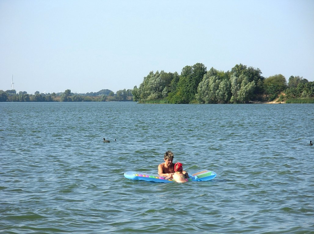 Pakoskie Lake